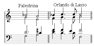 Cadences and the ending of the piece from Palestrina and Orlando di Lasso